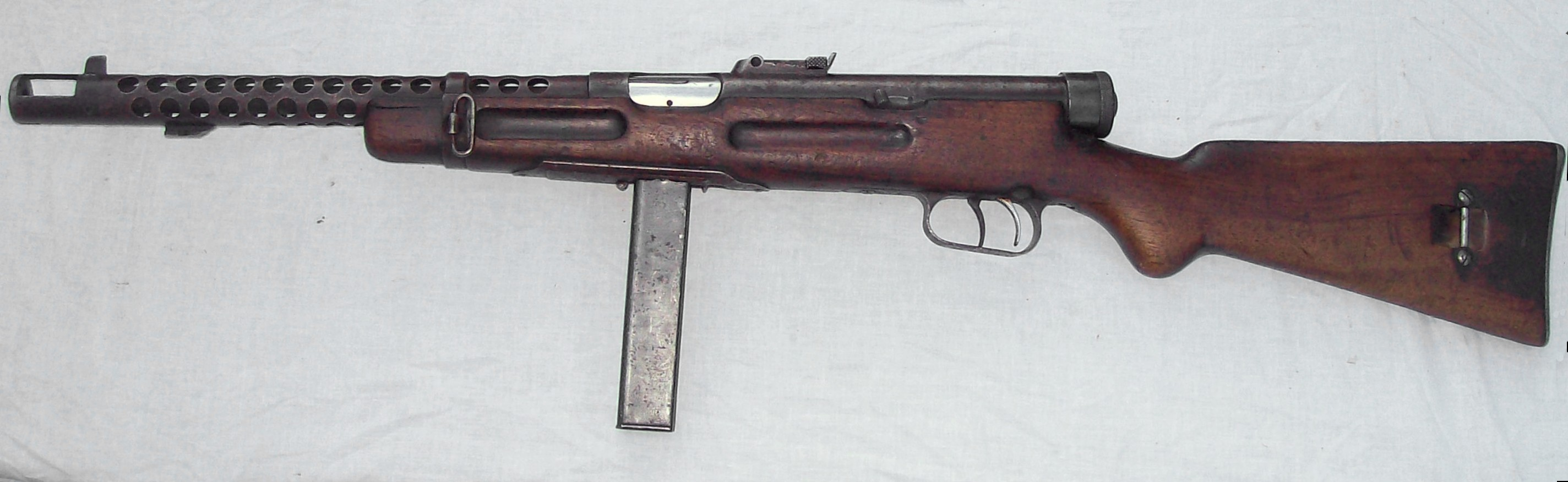 Beretta Submaschine Gun Model 1938.